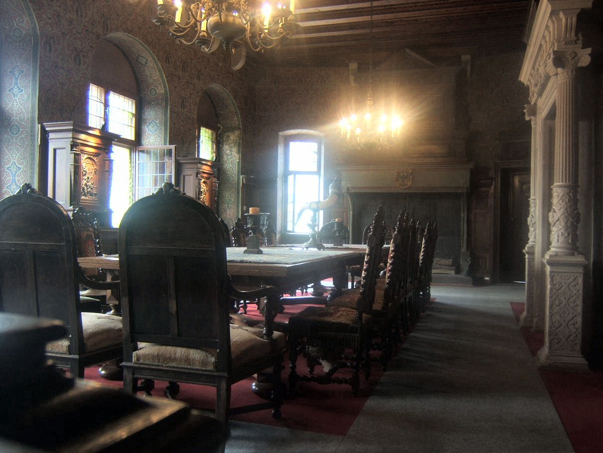 Dining-hall of Cochem Castle